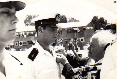 Ashur as distinguishe graduate of Chovlim with Ben Gurion